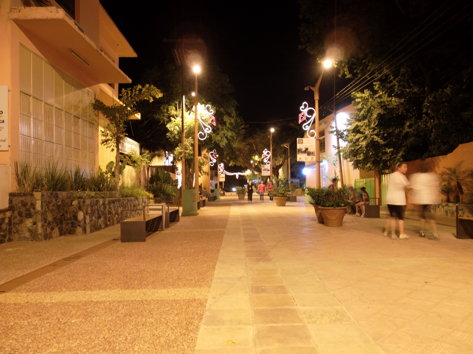 San Lorenzo street, pedestrian zones "Bicentenario"